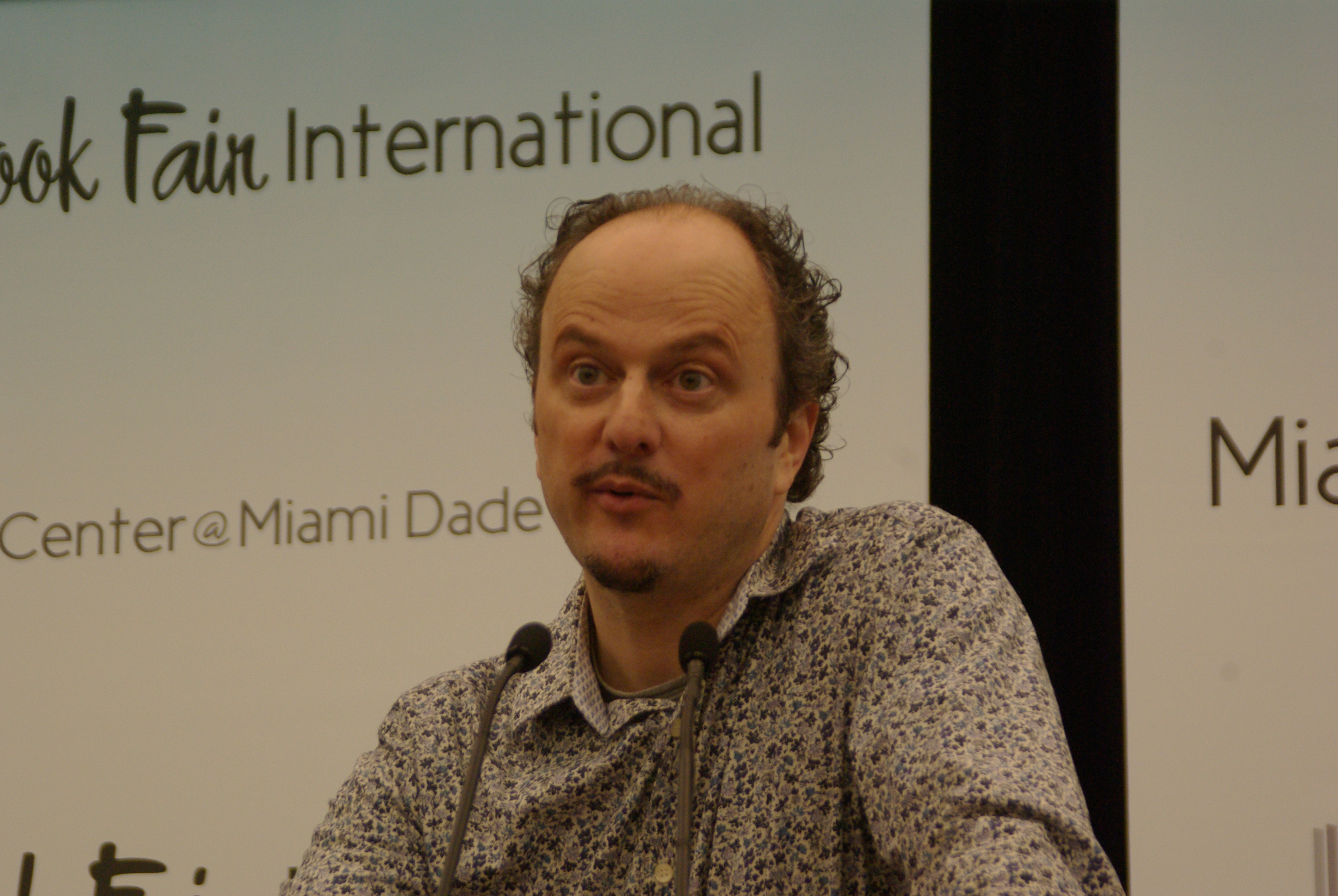 American writer Jeffrey Eugenides at the Miami Book Fair International 2011